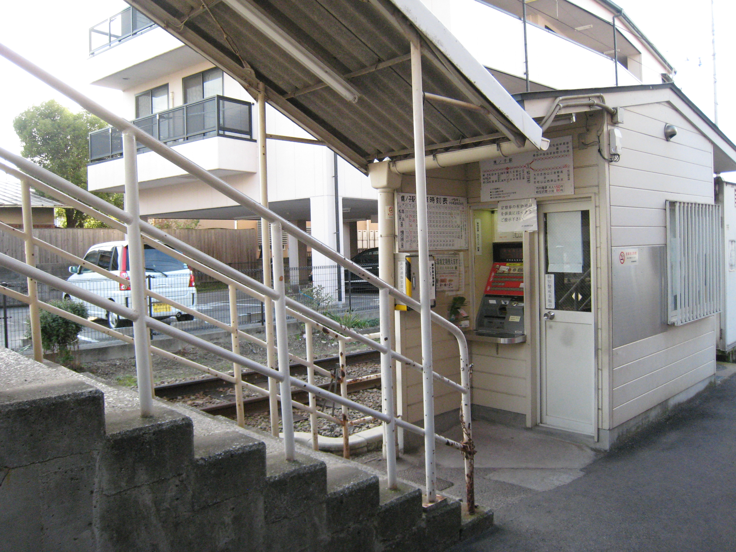 Iyo Railway [Sta.Takanoko]